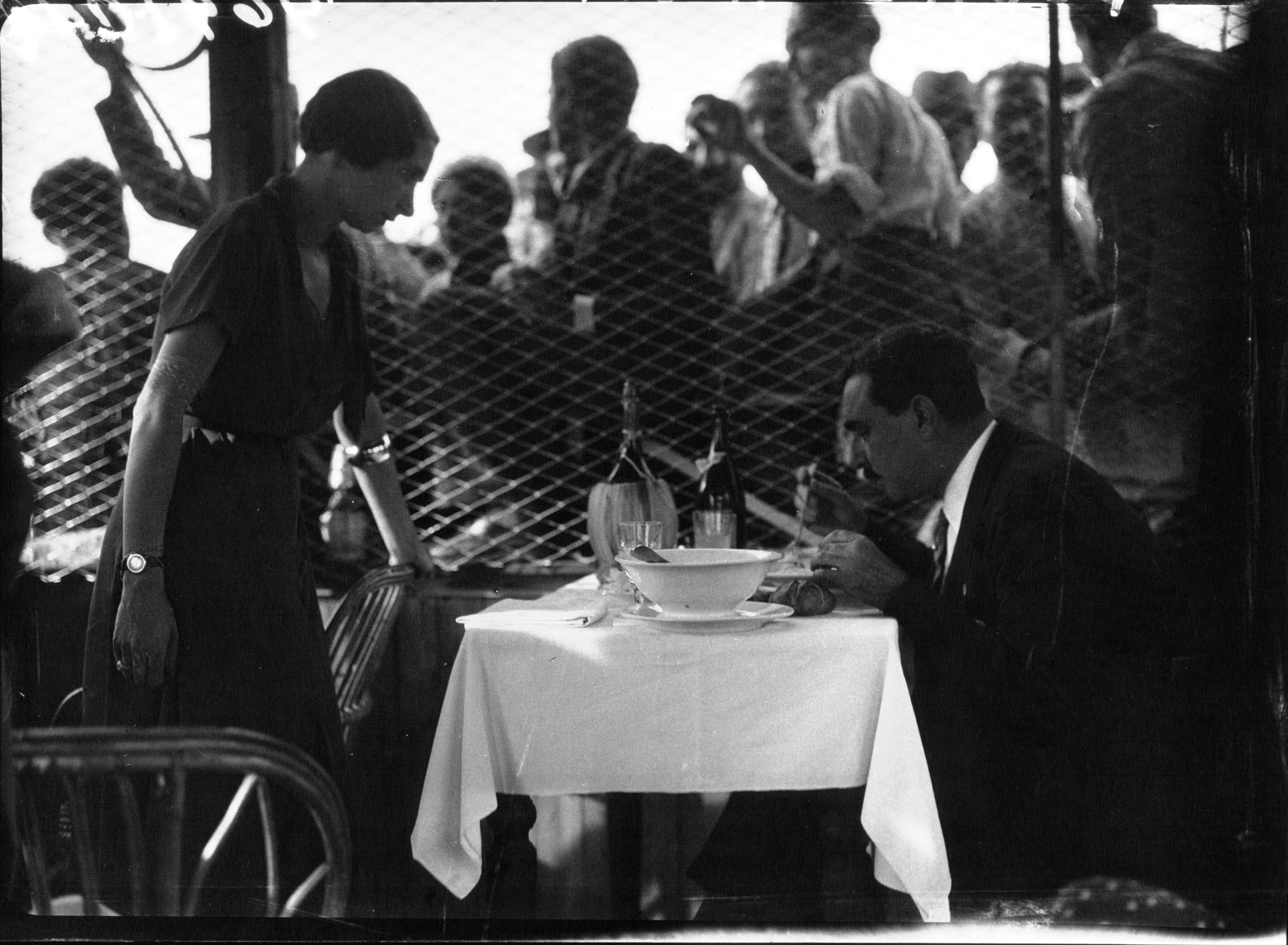 Vincenzo Florio at the 1932 Monza Grand Prix